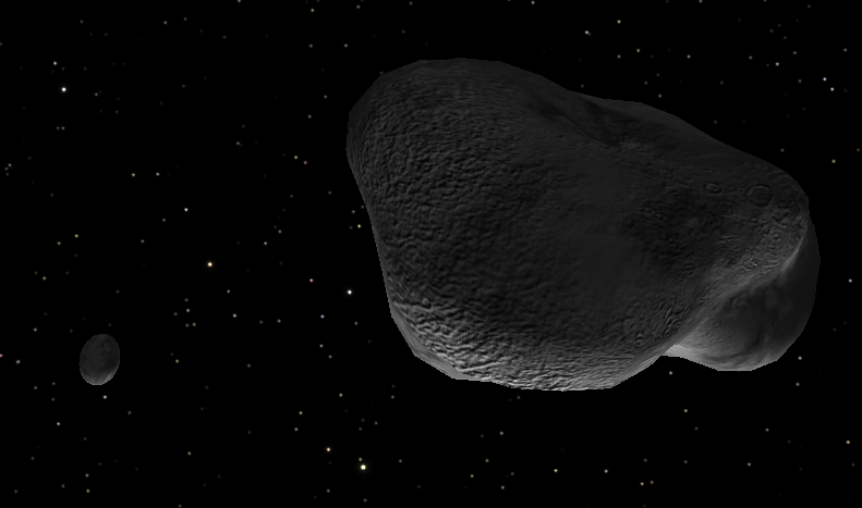 Artistic representation of Hi'iaka, with Haumea on the background.